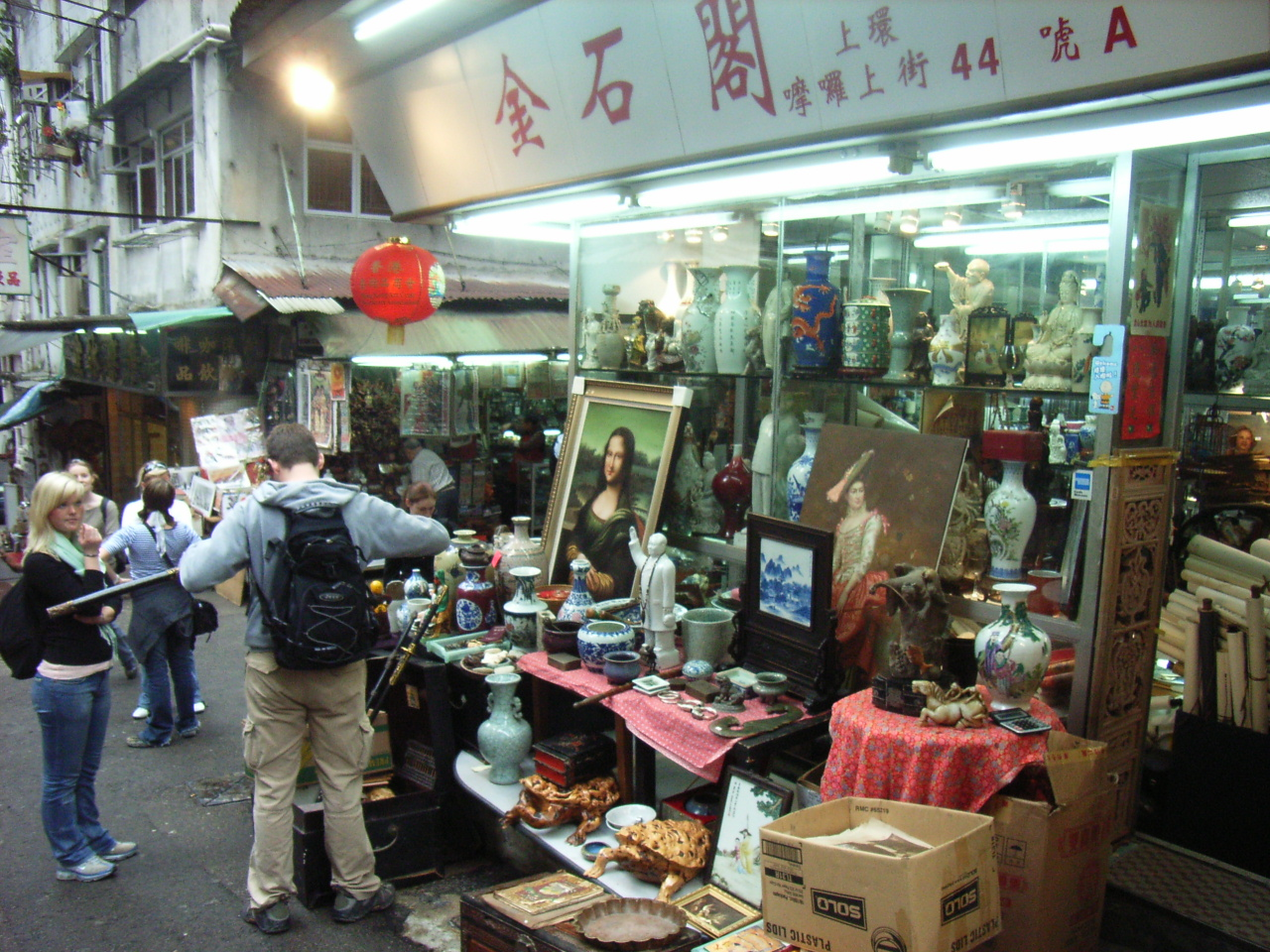 The Upper Lascar Row 摩囉街 or 嚤囉街, near the Hollywood Road, Sheung Wan, Hong Kong